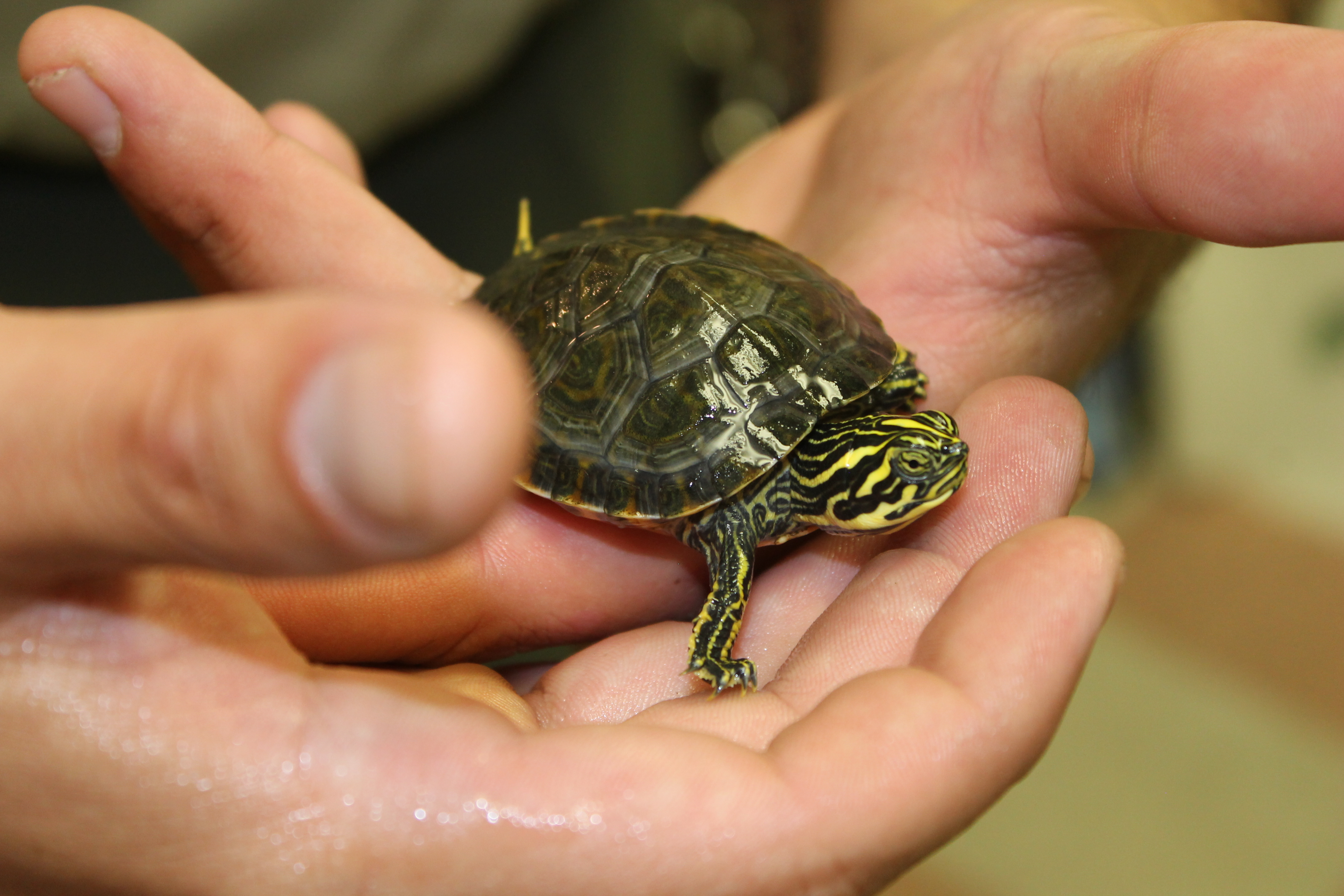 2015 taken by zar